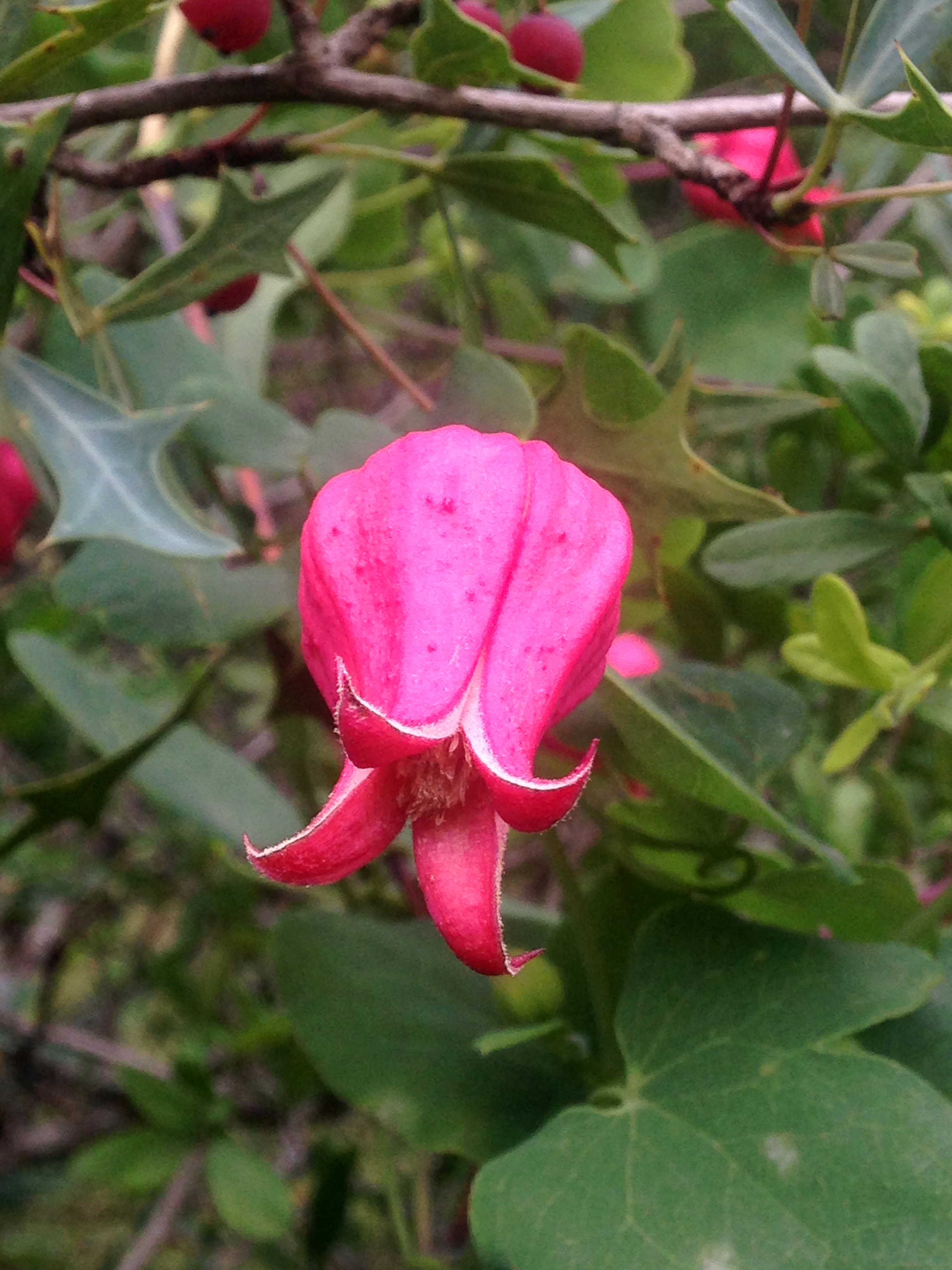 Clematis texensis, openings in mesic forest along the Sabinal River, Lost Maples State Natural Area. Bandera County, Texas.